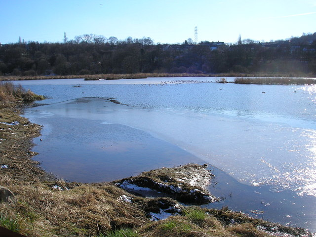 Rodley Nature Reserve. A former sewage treatment works, this reserve has been designed to provide a wetland habitat for migrating waders and wildfowl. The habitat at the time of the picture was more suitable for skaters than waders.